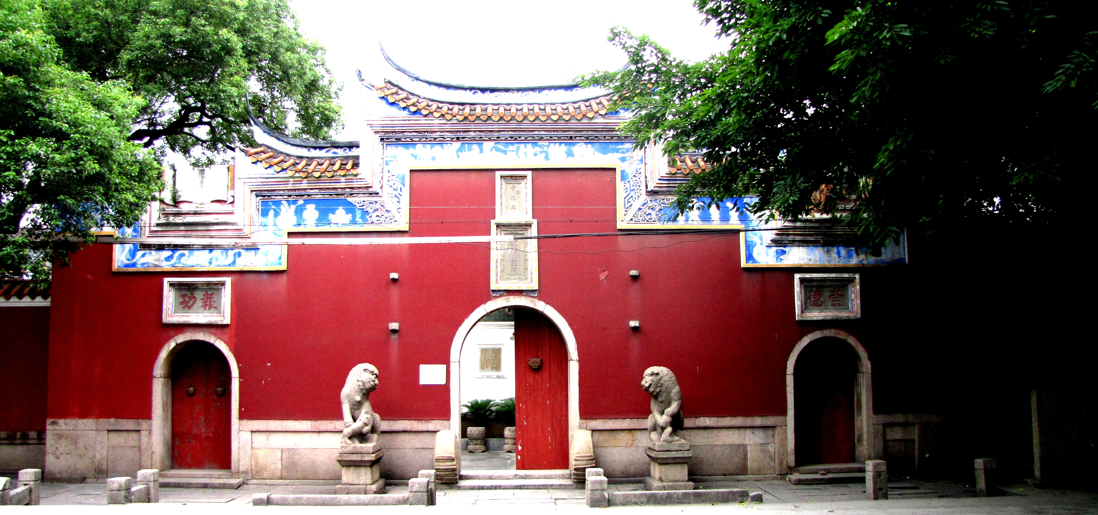 Wang Shenzhi Temple in Fuzhou Mìng-dĕ̤ng-ngṳ̄: Hók-ciŭ Mìng-uòng-sṳ̀